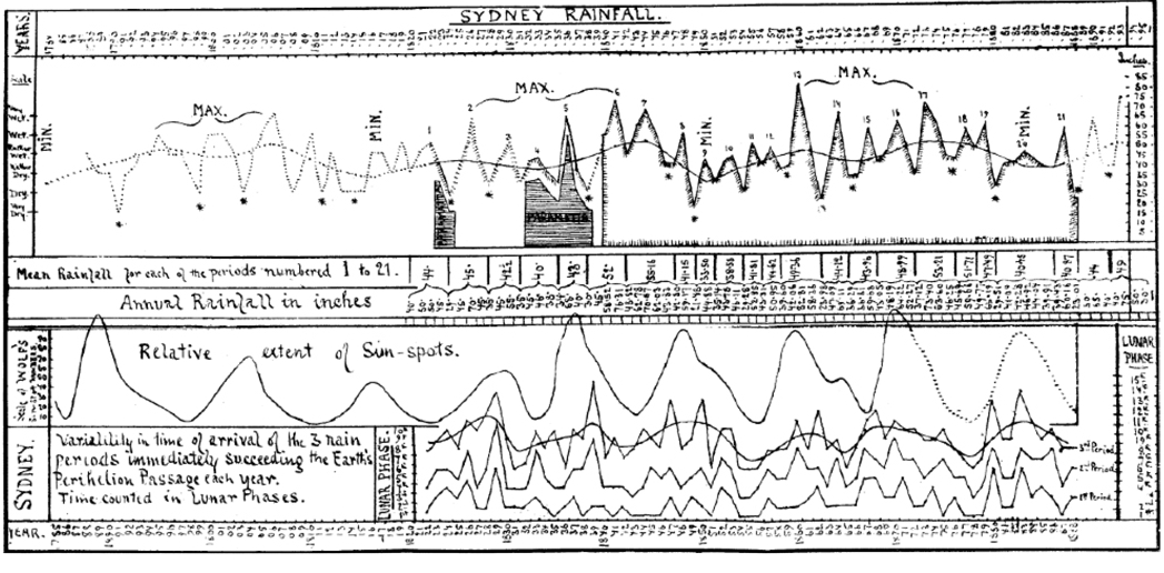 Sydney rainfall chart by Charles Egeson